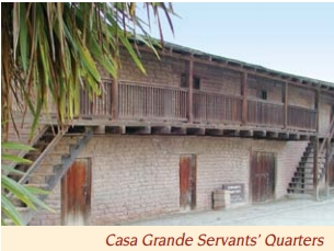 East side of Casa Grande Servants Quarters - Sonoma State Historic Park